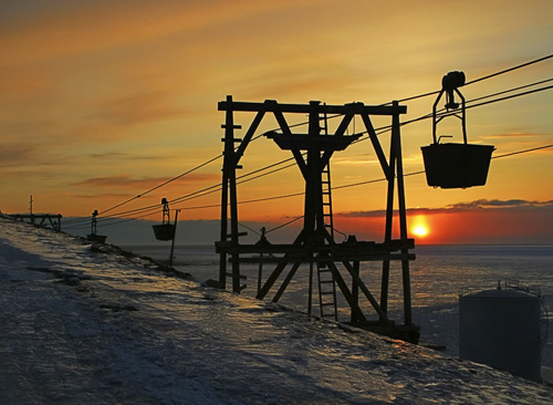 Cableway in Longyearbyen, Svalbard